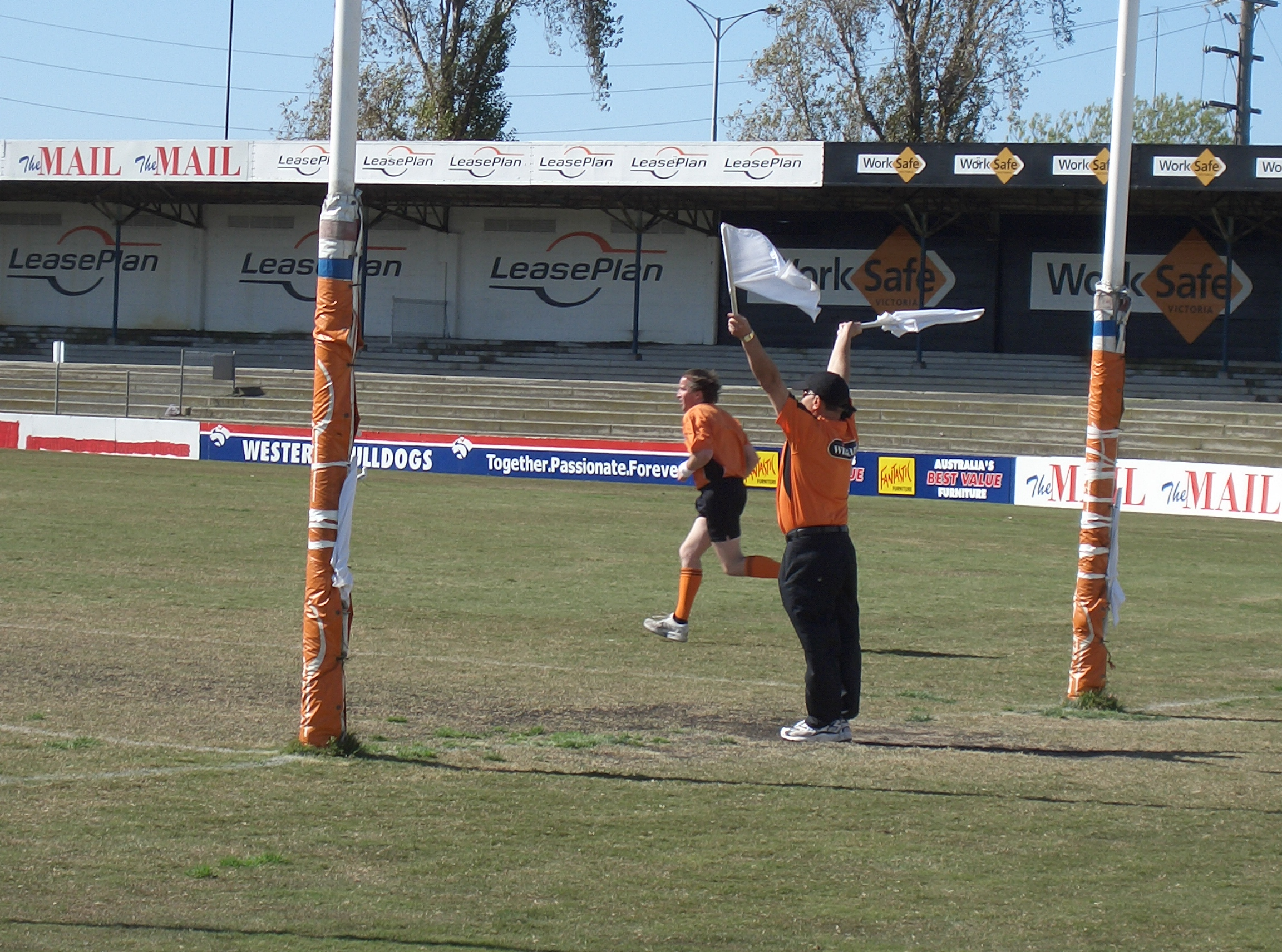 The goal umpire signals a goal with two white flags, while the field umpire makes his way back to the centre of the ground for the next ball up. Taken at the Grand Final of the Victorian Women's Football League, Division 1 Reserves.